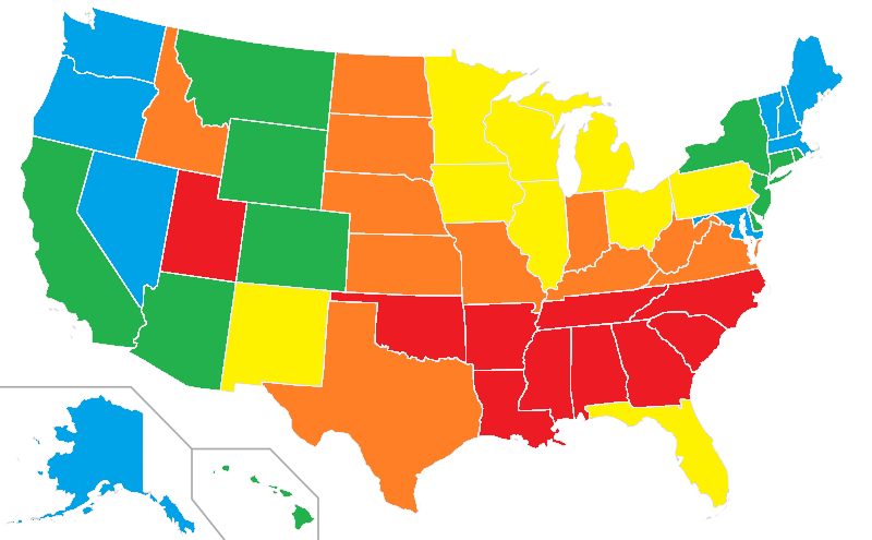 Red is most religious. Orange is very religious. Yellow is average. Green is below average. Blue is least religious.